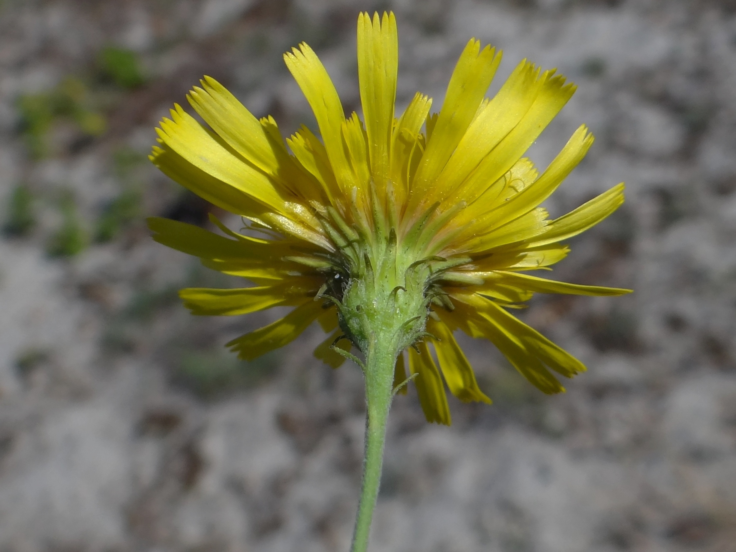 Hieracium umbellatum (location: Poland, Krynica Morska)